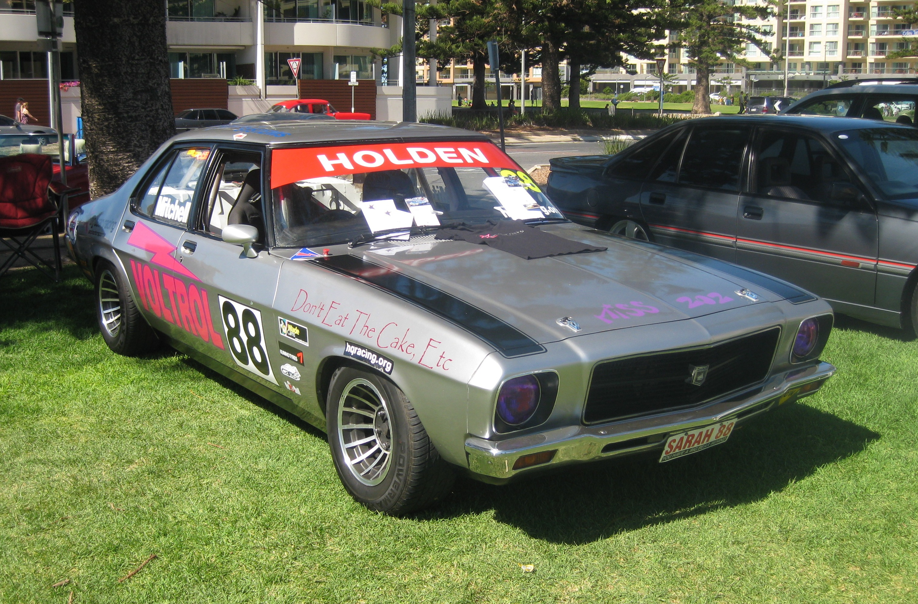 The Holden HQ of Sarah Mitchell, pictured at the 2011 All Holden Day at Glenelg in South Australia. The car has been modified for racing in the “Group 3H HQ Holden” category.